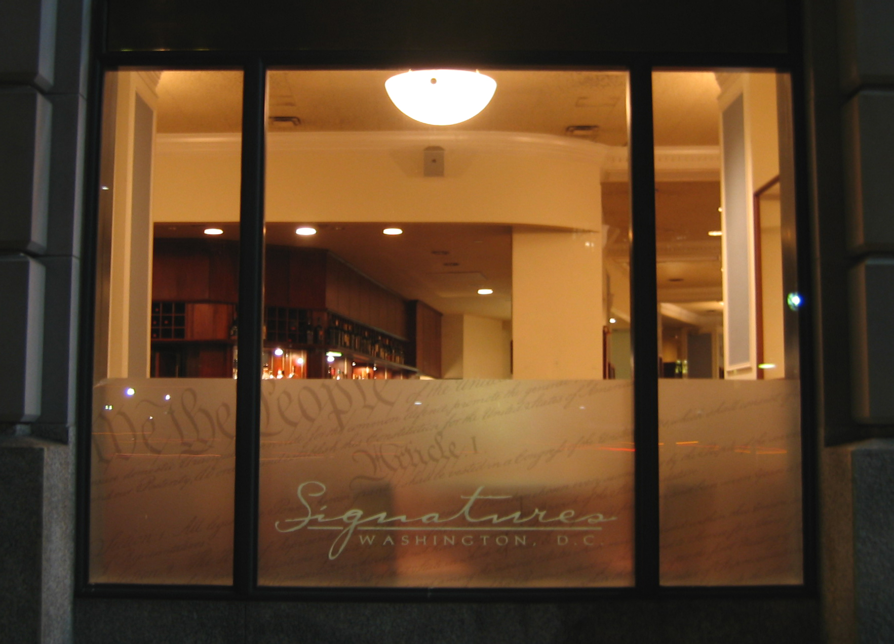 Signatures restaurant, once owned by Jack Abramoff, is located on Pennsylvania Avenue, in the Penn Quarter neighborhood of Washington, D.C. Dinner at Signatures can run $50-70 per person. Signatures is now temporarily closed, while its new owners transform (and rename) the restaurant.